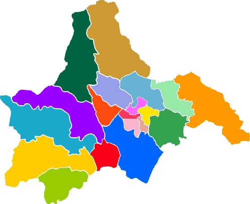 Subdivisions of Chengdu Prefecture — in central Sichuan Province, southwestern China.